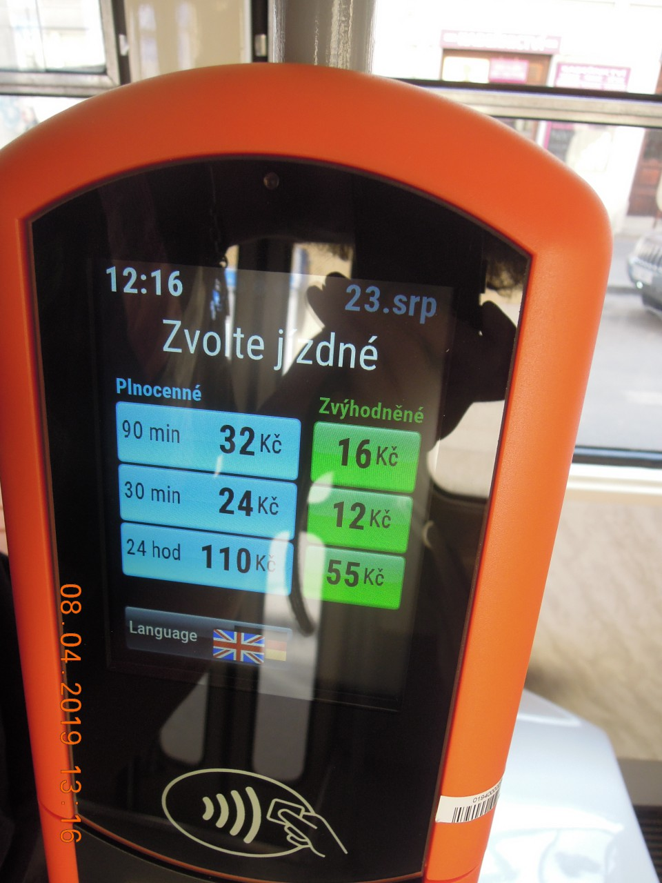 A ticket terminal for the Prague tram showing the date 1024 weeks earlier due to the GPS Week Number Roll-Over in April 2019.